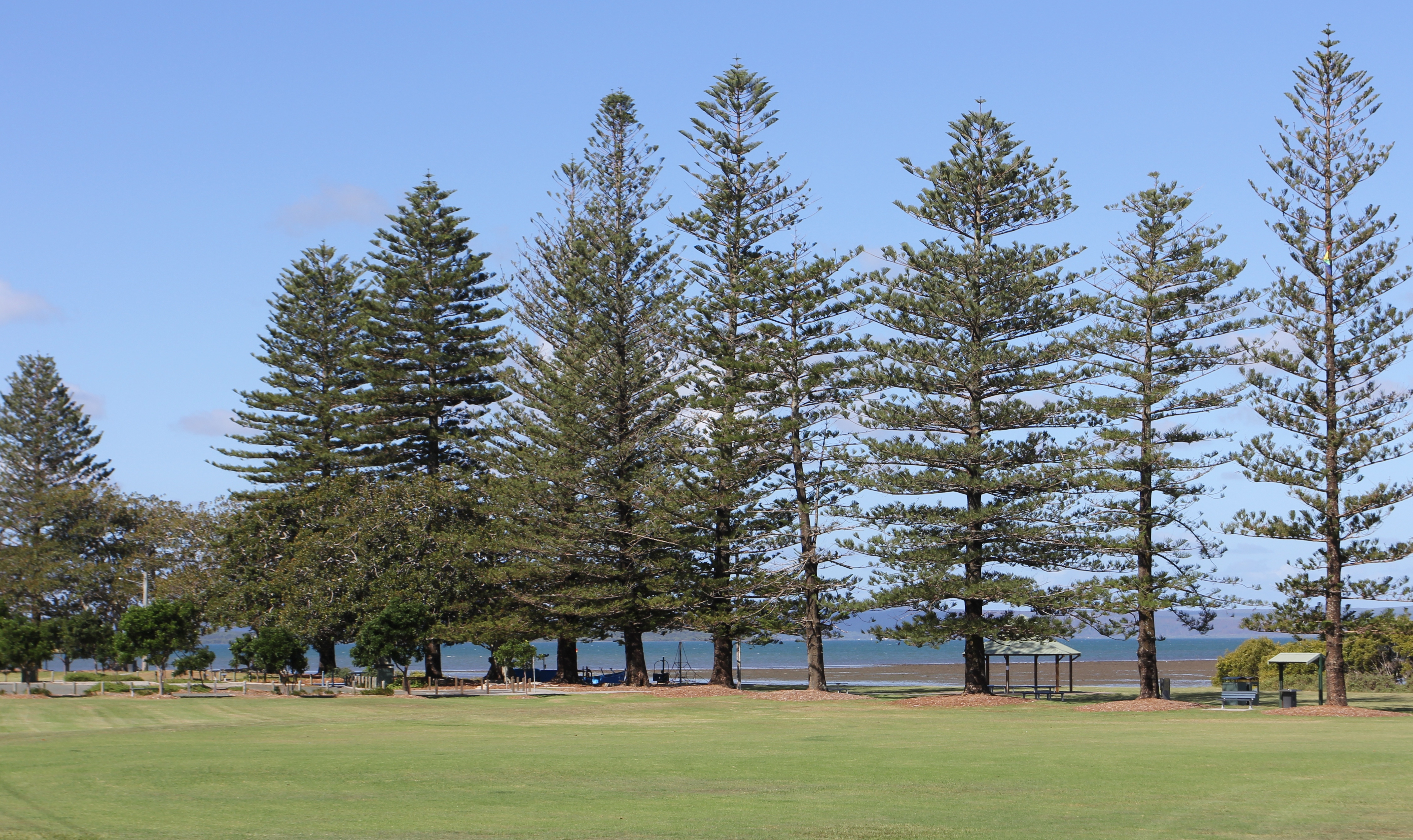 Norfolk Island Araucaria Araucaria heterophylla in G.J. Walter Park on shores of Moreton Bay at Cleveland, Queensland